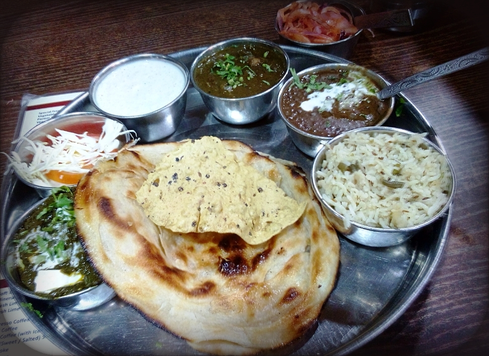 Thaali full of love and butter